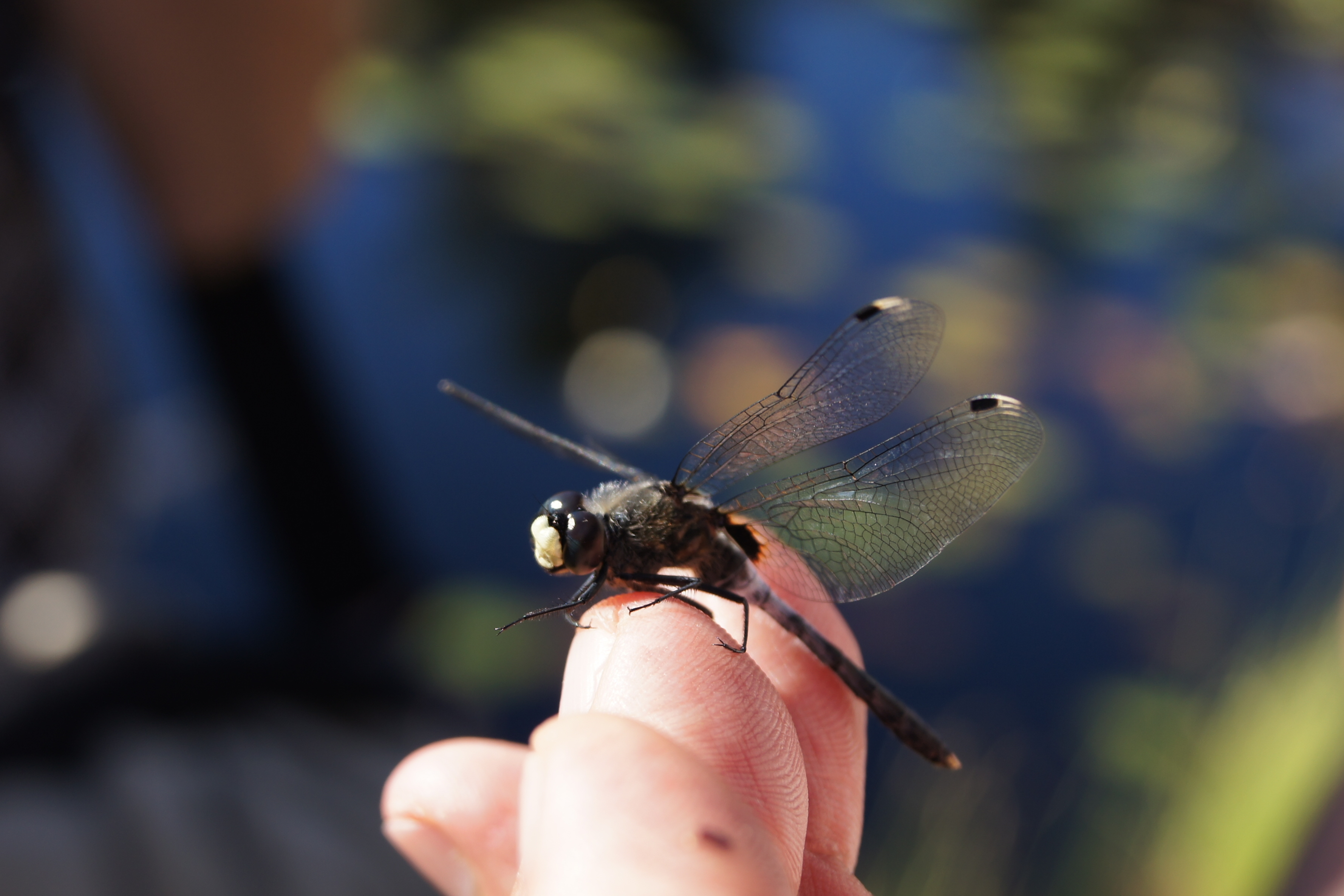 Leucorrhinia albifrons